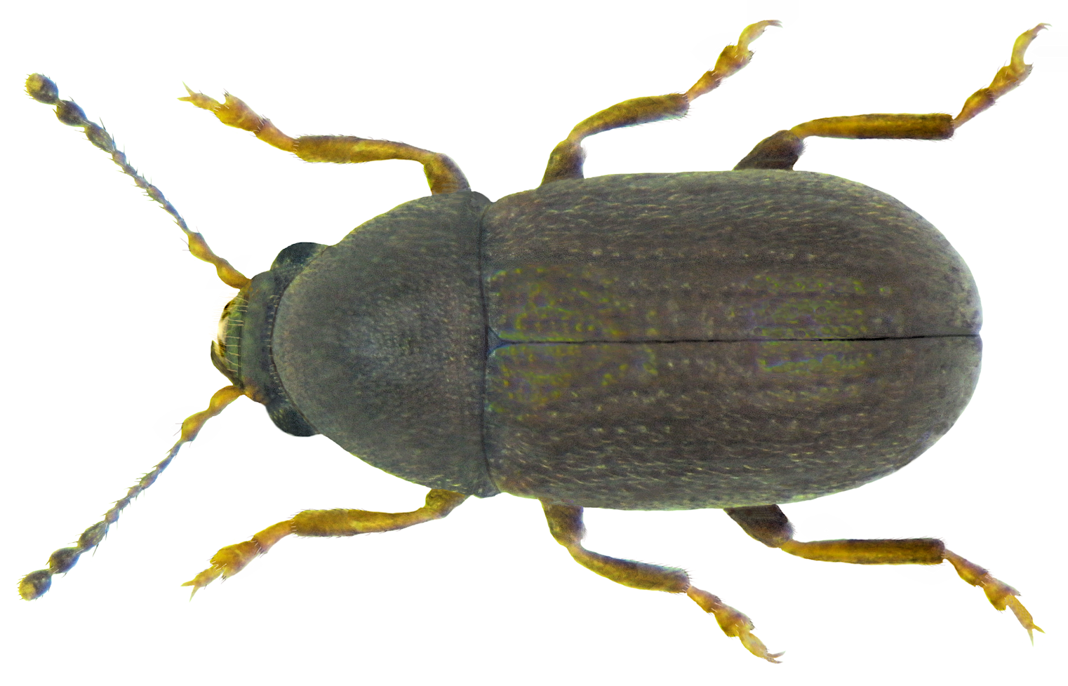 Family: Anthribidae Size: 1,7-2,4 mm Origin:France, the UK, Central and Eastern Europe, Asia Minor, Middle East Ecology: Development of mushrooms (Pyrenomycetales) on dead wood Location: England, Cranborne, 22.VI.1934 P.Harwood coll Pres 1957 by Mrs. Harwood data under mount 5 - 1958 Coll. Museum Oxford Photo: U.Schmidt, 2012